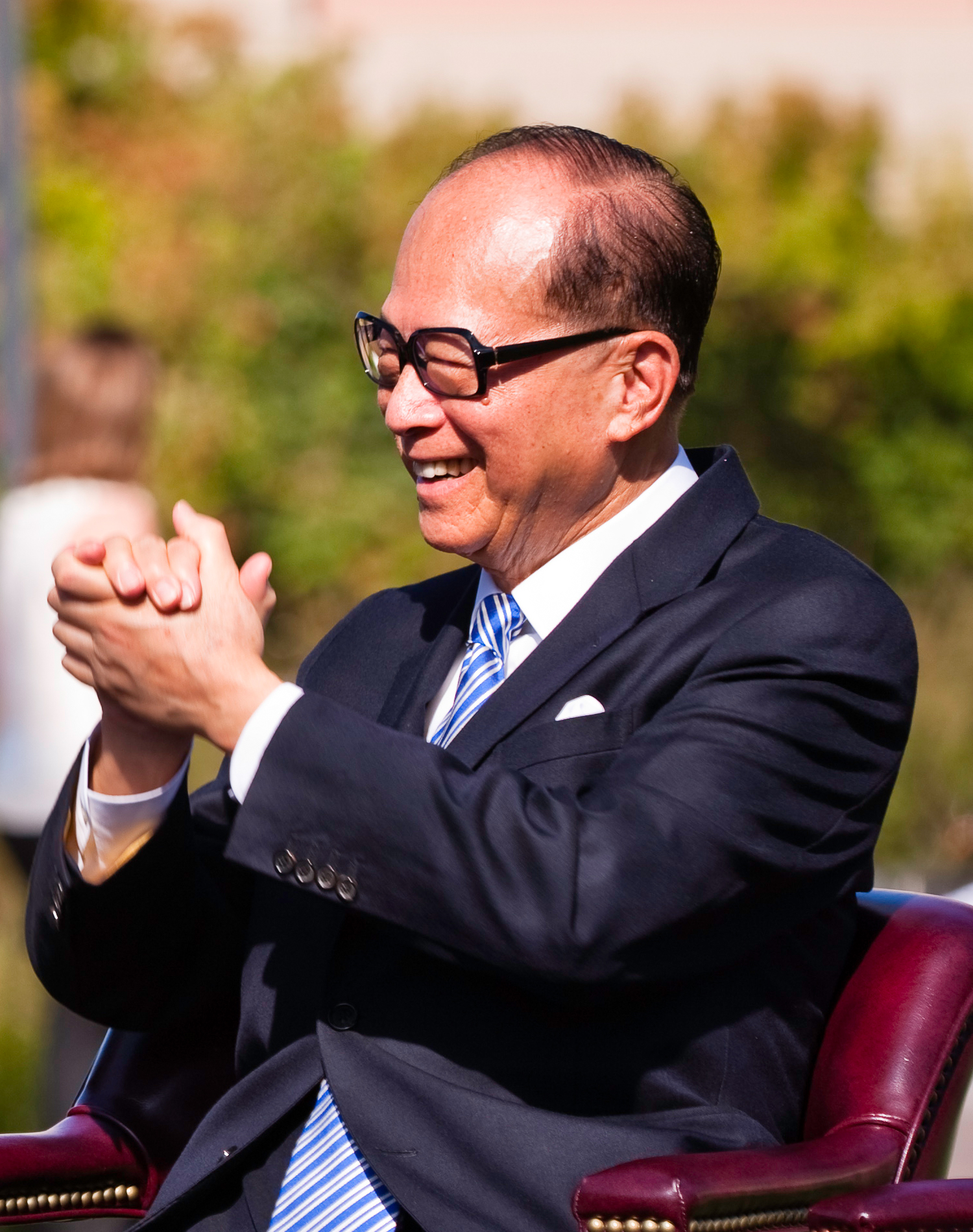 Li Ka Shing in EdTech Stanford University School of Medicine